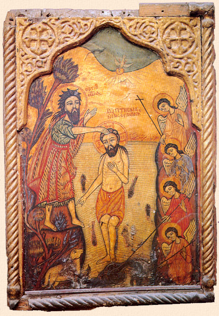 The Baptism of Jesus Christ (Coptic Church of Saint Mercurius, Old Cairo)